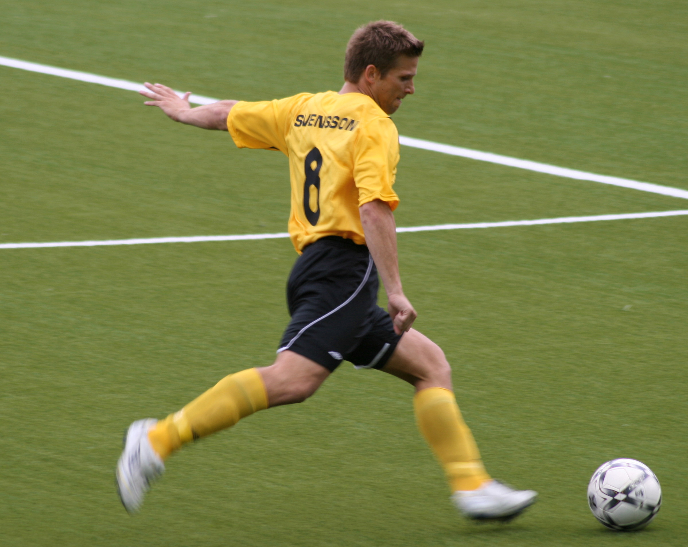 The footballplayer Anders Svensson in Elfsborg